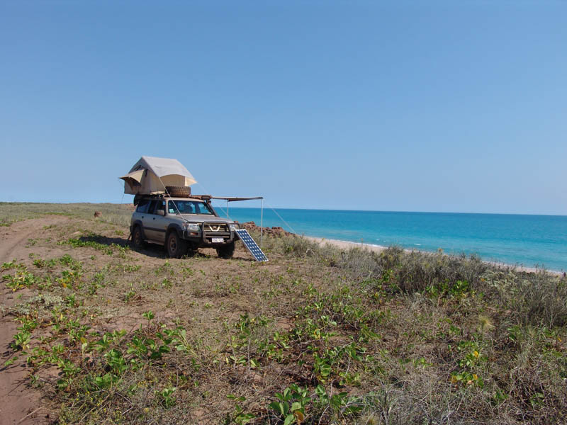 2001 Nissan Patrol GU with ARB Simpson II Roof Top Tent at Barred Creek, approximately 40km north of Broome.